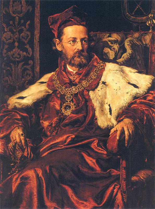 Portrait of Józef Szujski by Jan Matejko